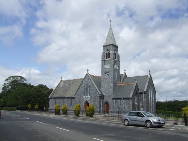 Catholic church at Terryglass